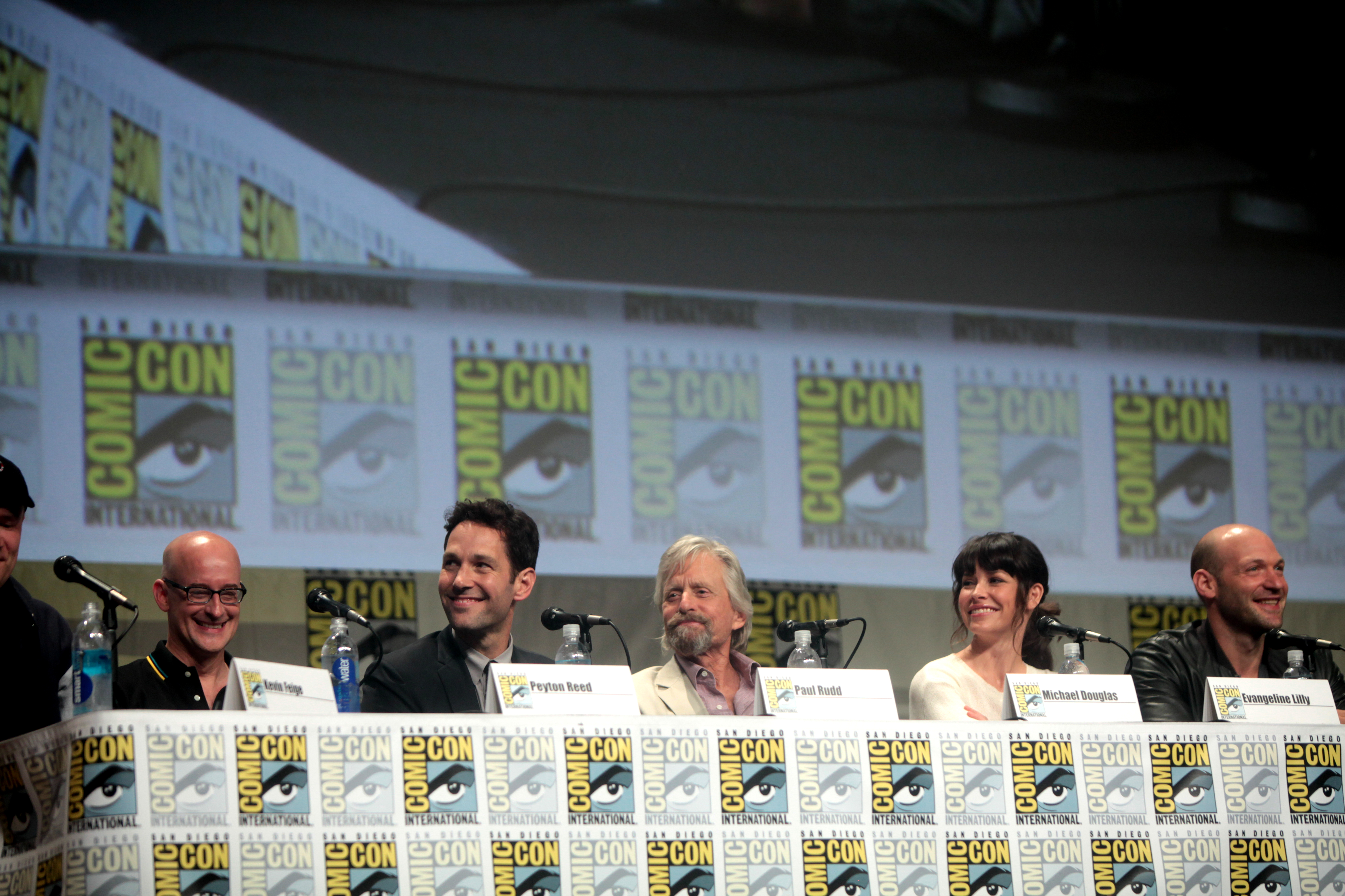 Peyton Reed, Paul Rudd, Michael Douglas, Evangeline Lilly and Corey Stoll speaking at the 2014 San Diego Comic Con International, for "Ant Man", at the San Diego Convention Center in San Diego, California.